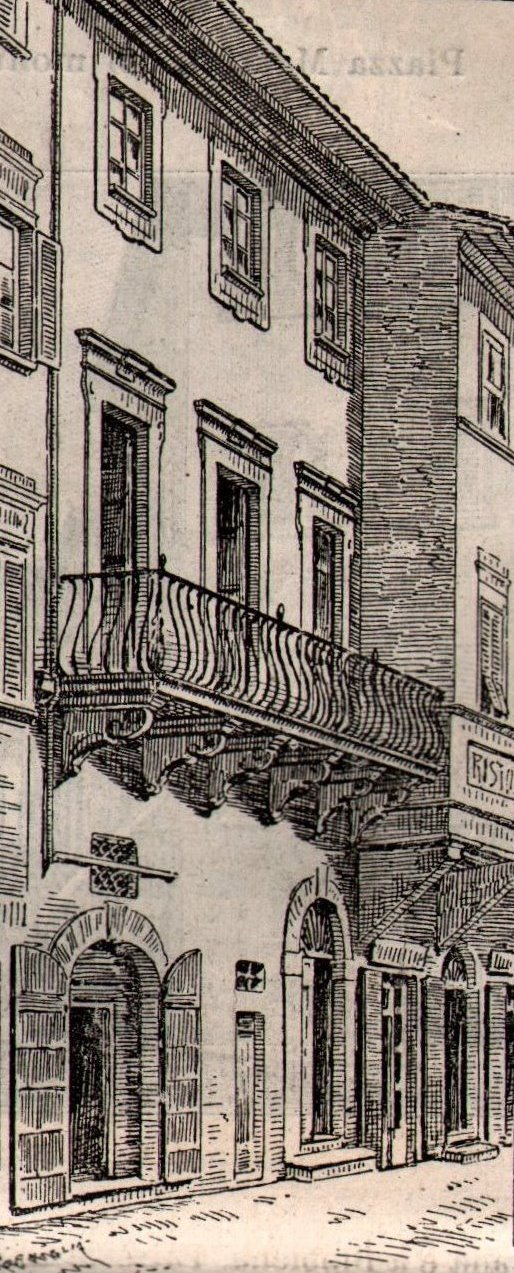 The house of the scientist Raffaello Magiotti (1597-1656) in Montevarchi